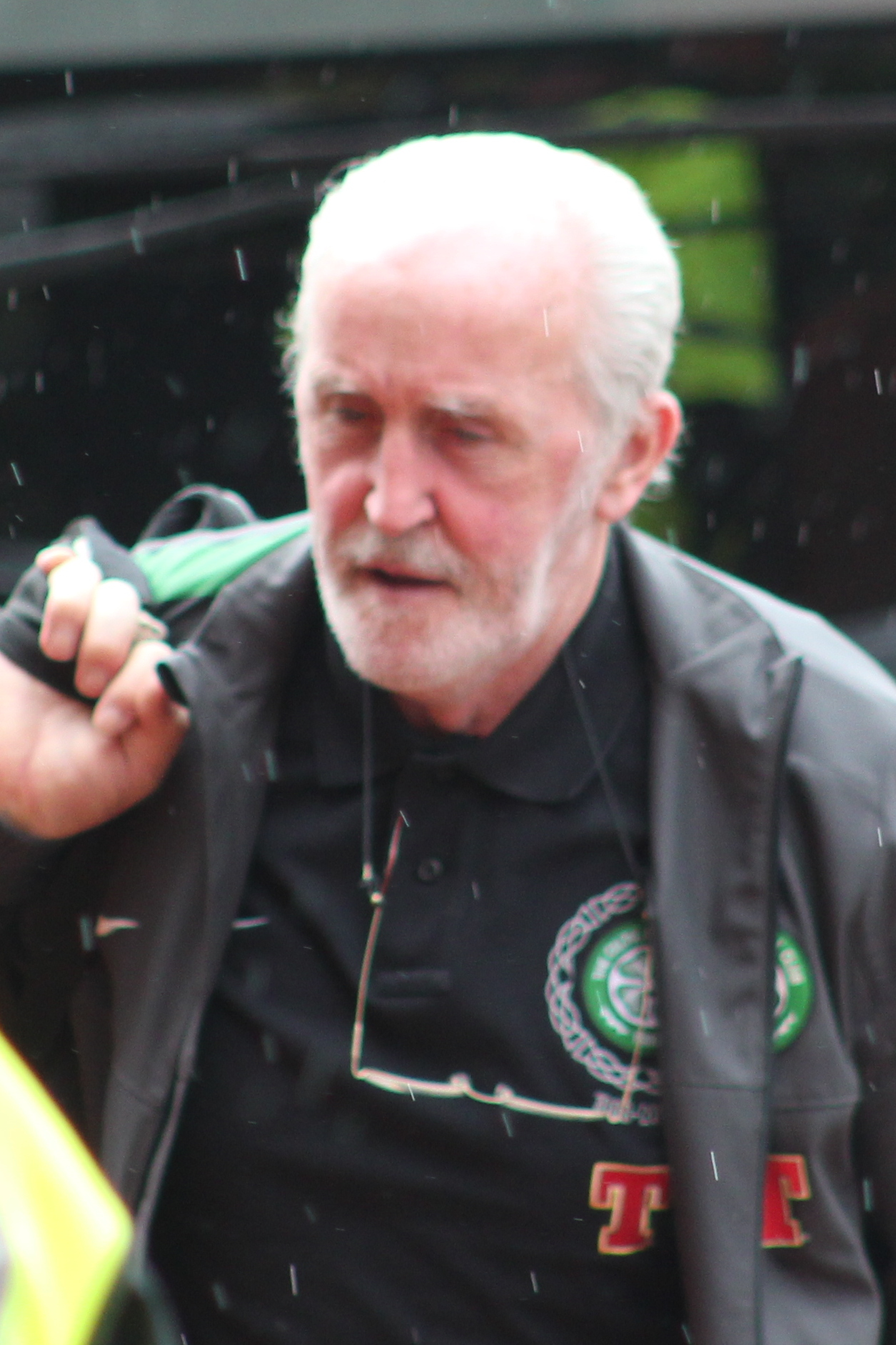 Celtic Park 21/04/13